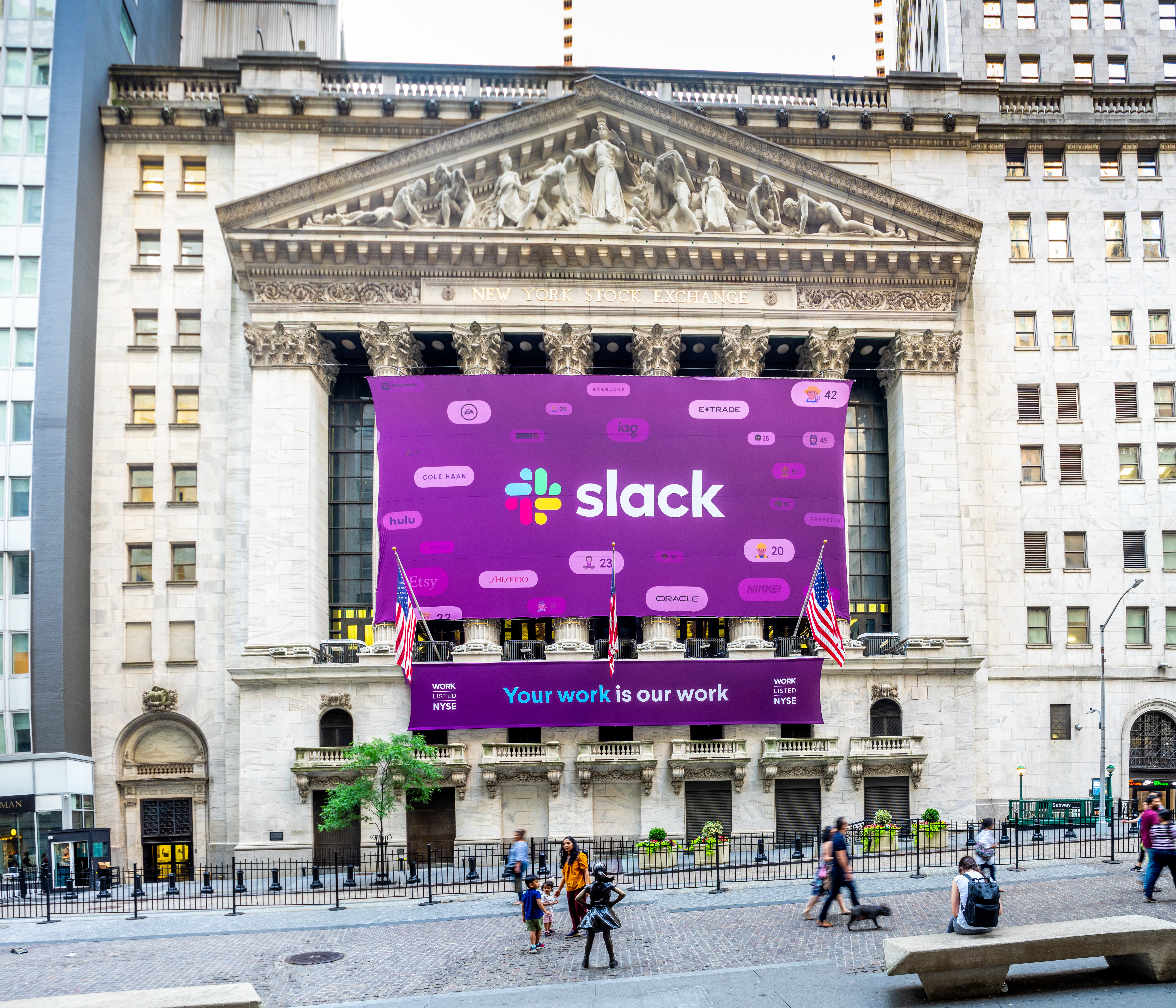 Financial District, NYC